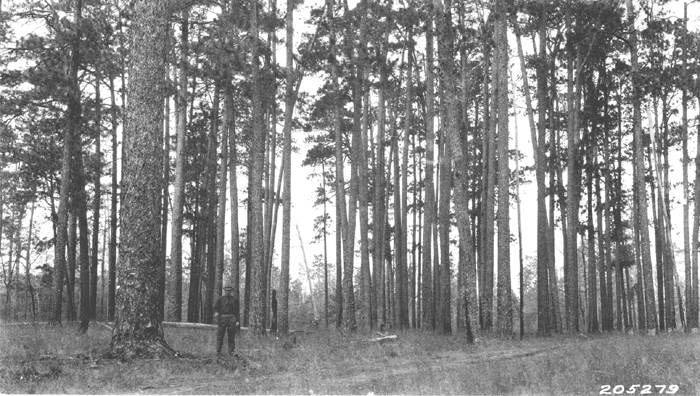 Virgin longleaf pine forest.